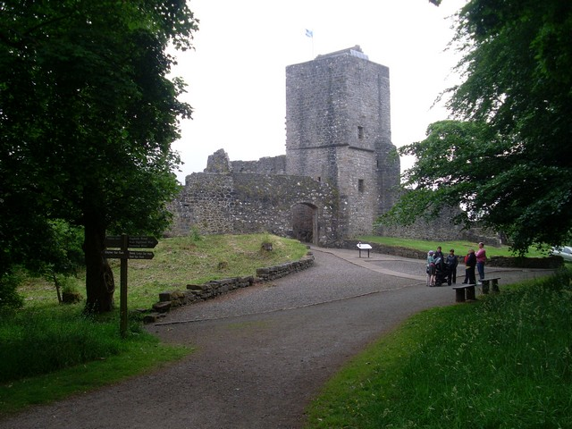 Mugdock Castle Mid-13th Century castle, former stronghold of the Clan Graham.